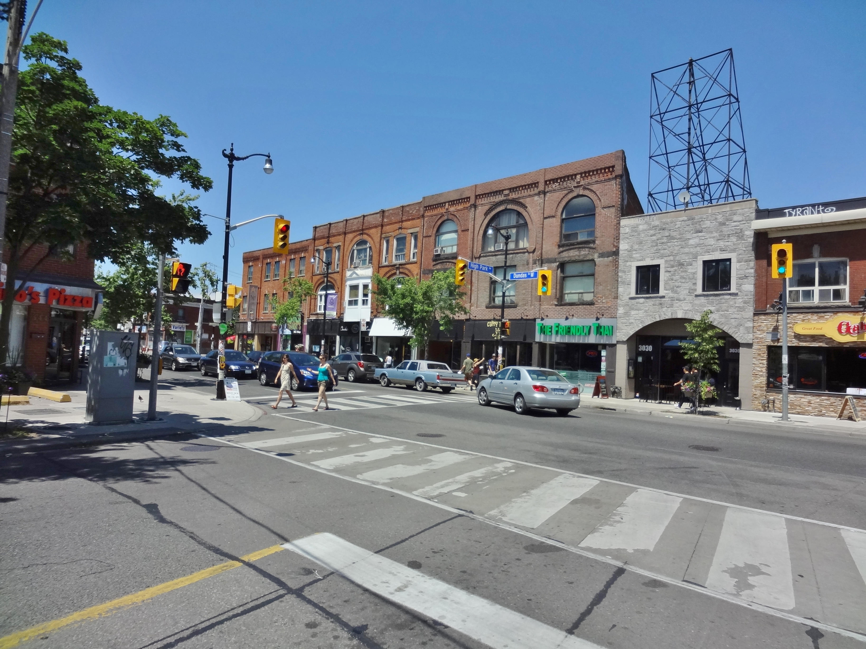 Popular corner located at Dundas St. & High Park Ave. in the Junction, Toronto Ontario